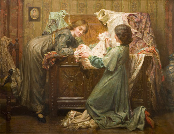 George Phoenix. the Grandmother's wardrobe. 1912.